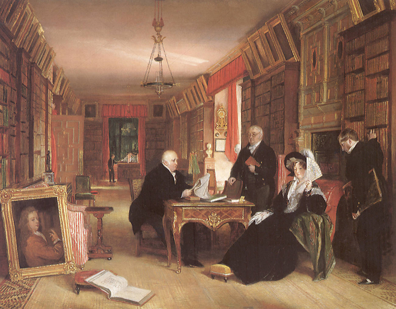 Henry Richard Vassall-Fox, 3rd Baron Holland (1773-1840) and his wife seated in the library of Holland House, Kensington. The librarian John Allen stands between them. Mezzotint by Samuel Reynolds 1847 (published in Walker, Annabel & Jackson, Peter, Kensington & Chelsea: A Social and Architectural History, London, 1987, p.23) after painting by Charles Robert Leslie.